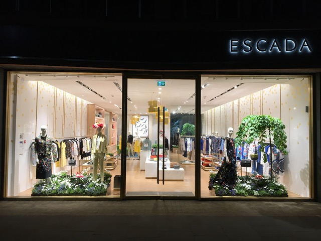 This picture presents the store front of an ESCADA Store and gives an introduction on the CI of the luxury brand